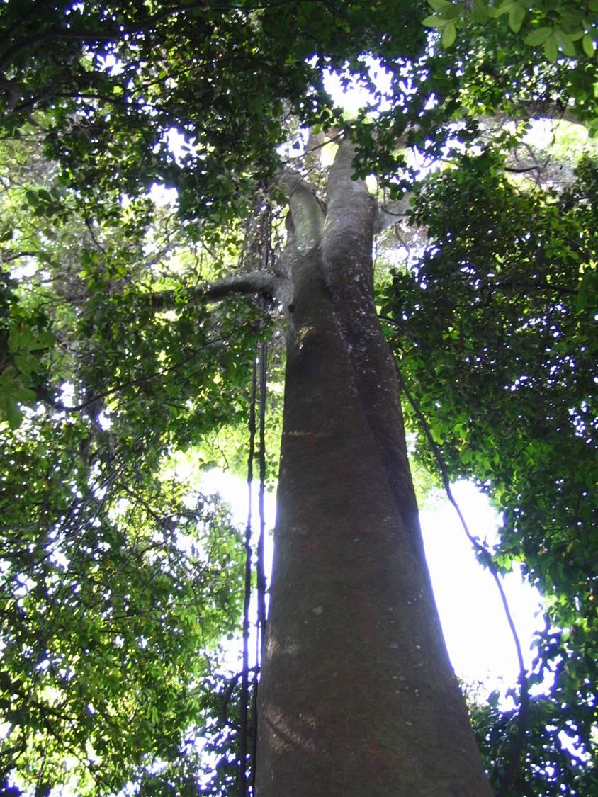 Dyera costulata- Bukit Nanas Forest Reserve - Kuala Lumpur Malaysia